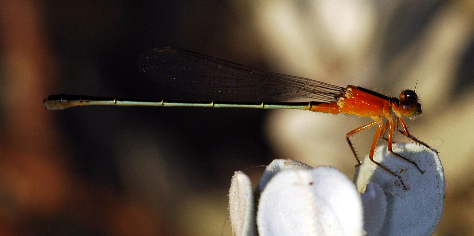 Female Ischnura verticalis, Amistad National Rec Area, Val Verde County, TX, 277 Campground